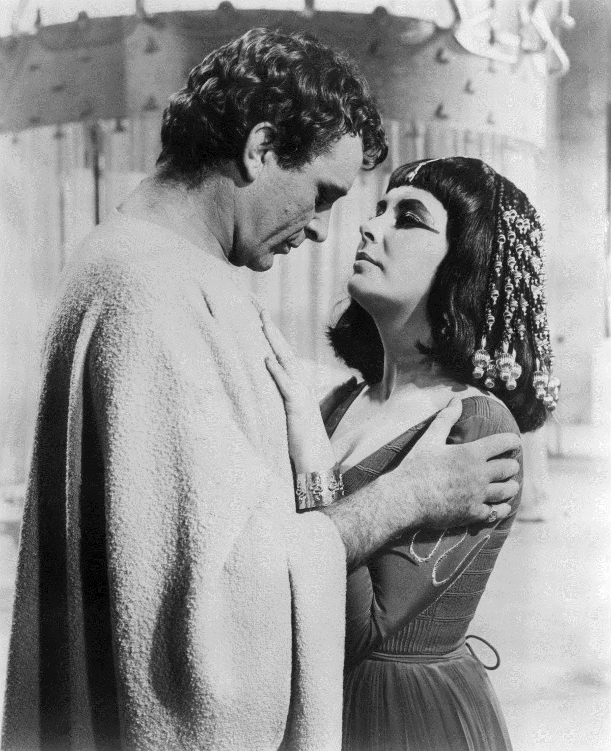 Photo of Richard Burton and Elizabeth Taylor in Cleopatra. Photo published by The Courier-Gazette, McKinney Texas. Note that the uploaded photo is larger and of better quality than the newspaper photo. A search was done for renewal at using the newspaper's title. There were no listings for the title; there's no evidence of renewal for this newspaper.